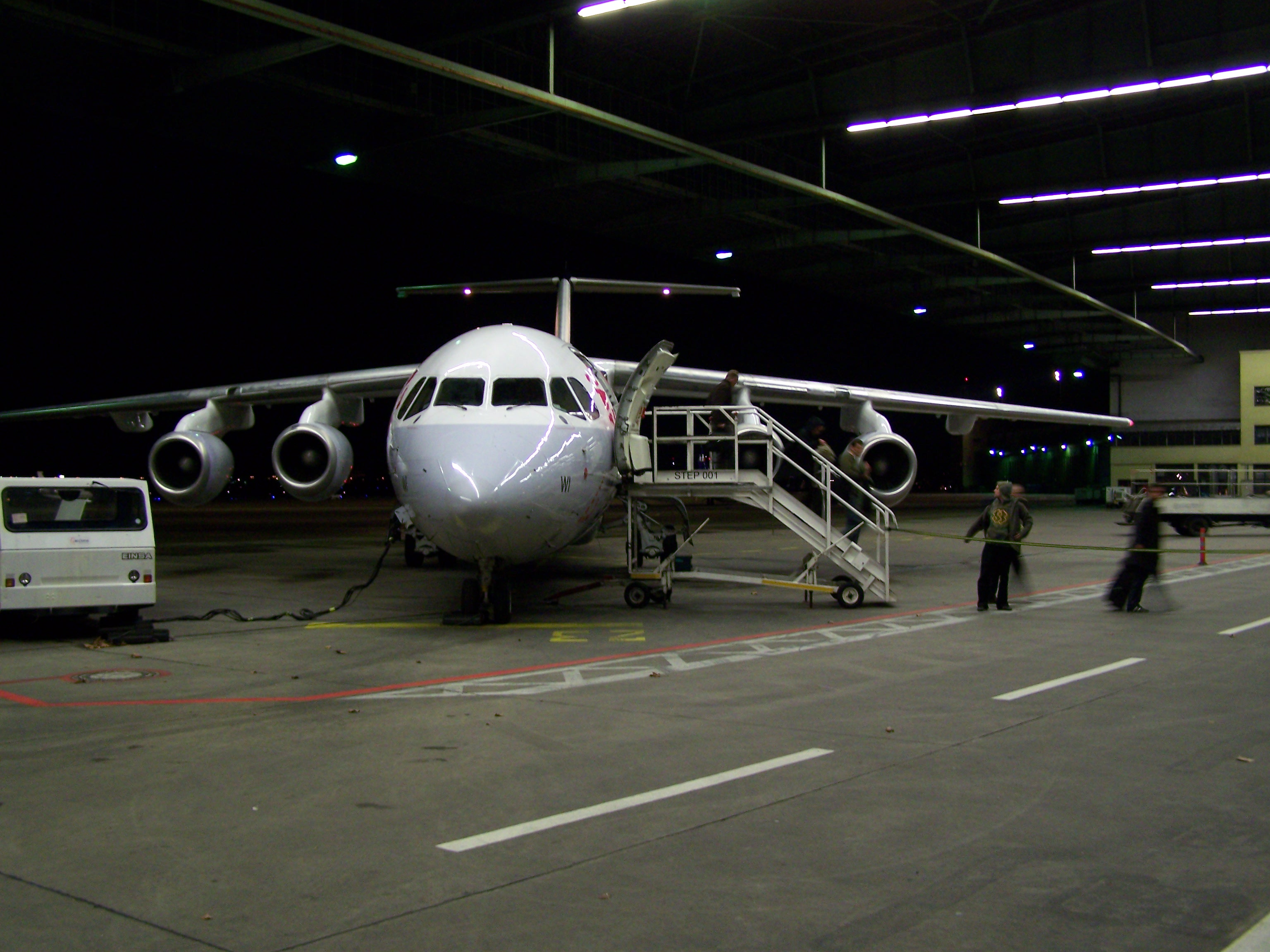 Avro RJ100 OO-DWI of Brussels Airlines at Tempelhof Airport in Berlin